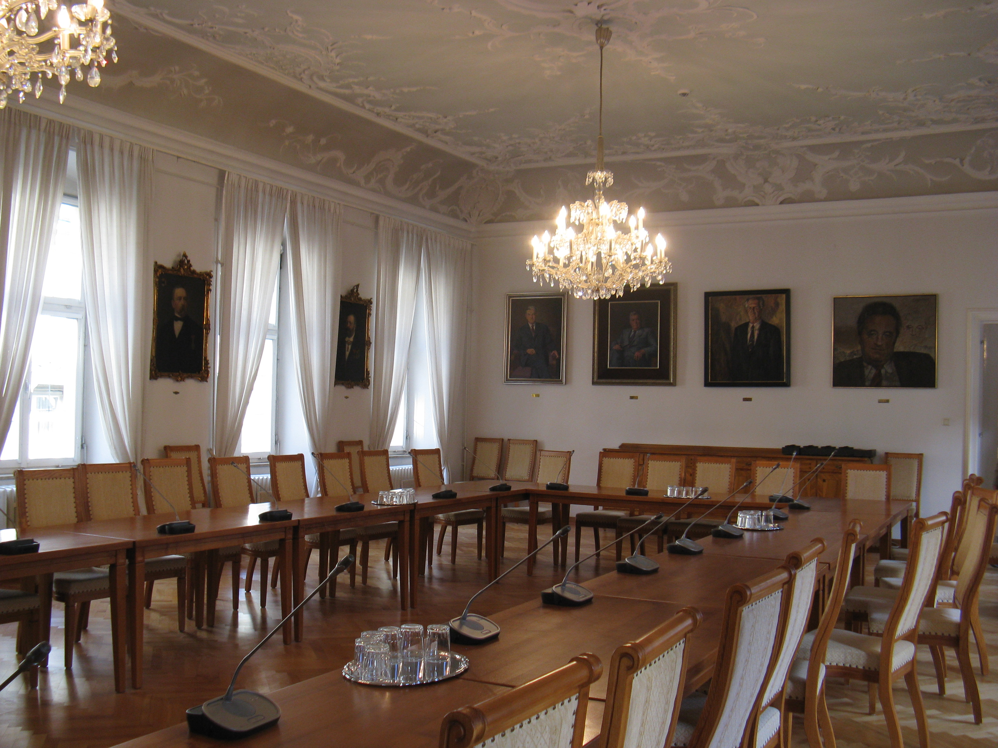 old "Landhaus" (provincial parliament) in Innsbruck, Austria Rokoko hall, during open day / on the wall: paintings of former governors of Tyrol